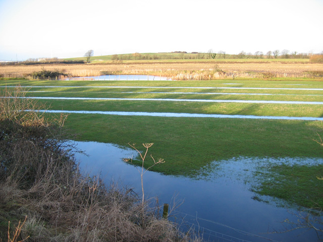 Aldcliffe Marsh This area lies behind and below the Lune estuary flood bank. Local birdwatchers refer to the pond in the middle distance as Bank Pool. The water-logged field in the foreground clearly shows cultivation ridges.